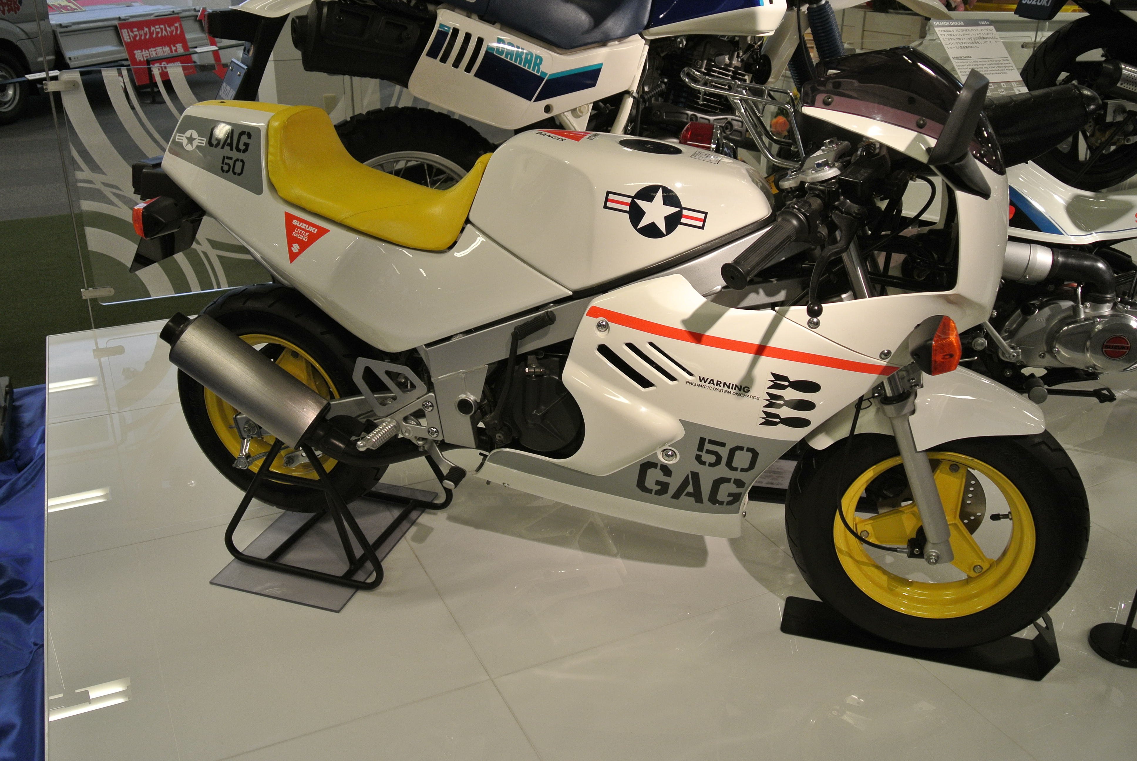 1986 Suzuki RB50 GAG in the Suzuki History Museum.